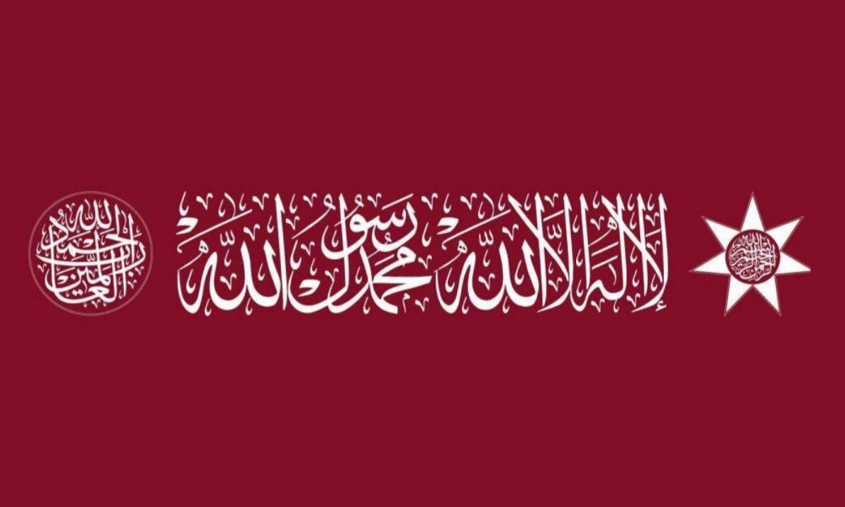 The Hashemite flag that was adopted about five centuries in the era of Hashemites in 1555